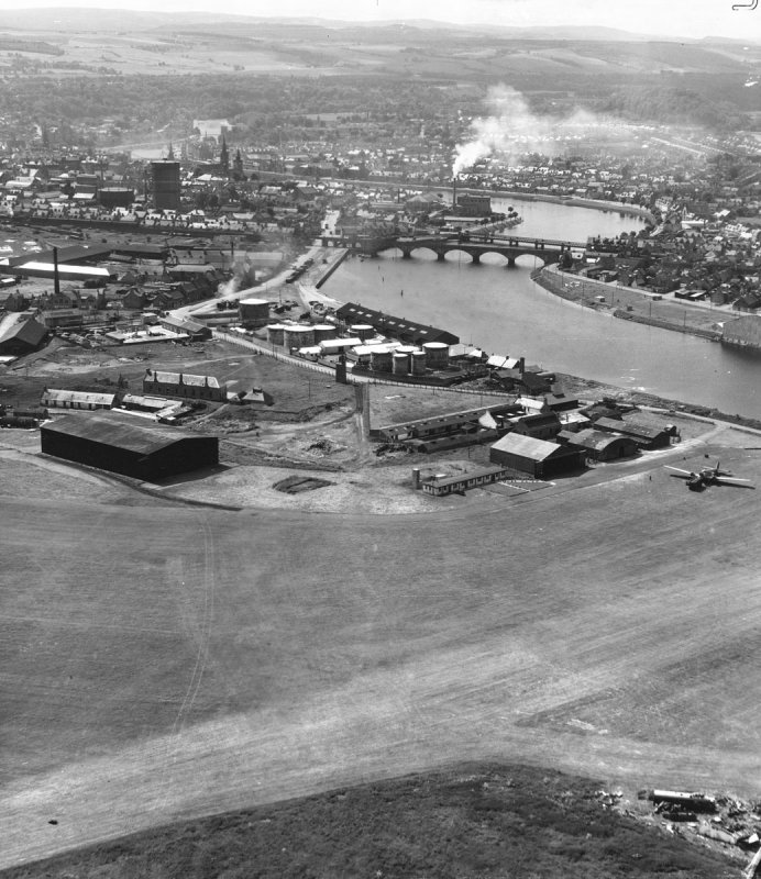 RAF Inverness